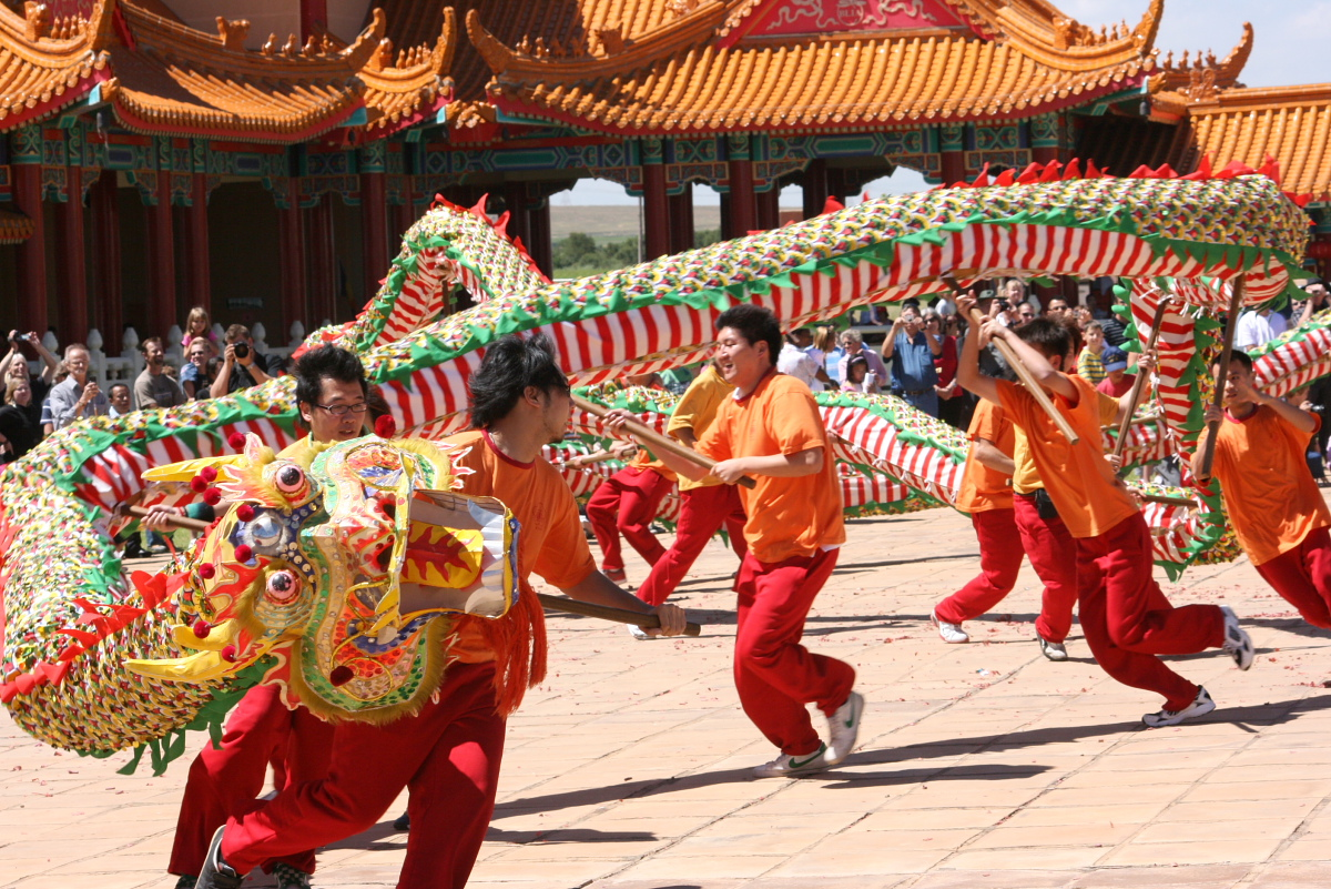 NAN HUA TEMPLE- Chinese New Year 2008